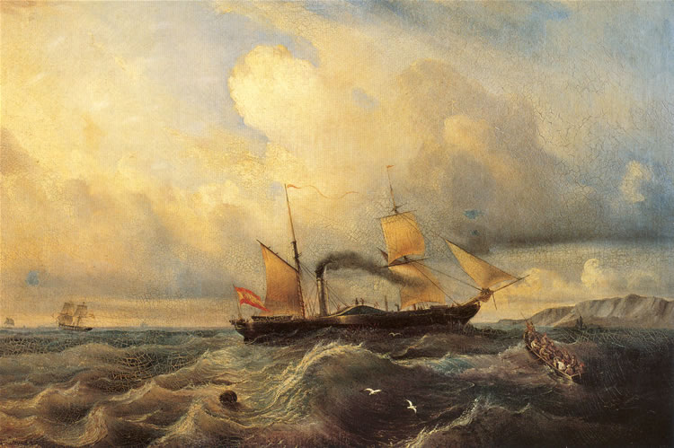 Paddle Steamer Isabel II; ex-SS Royal William; renamed Santa Isabel in 1850 painted by Antonio de Brugada Vila (1804-1863) and expossed in Madrid Naval museum